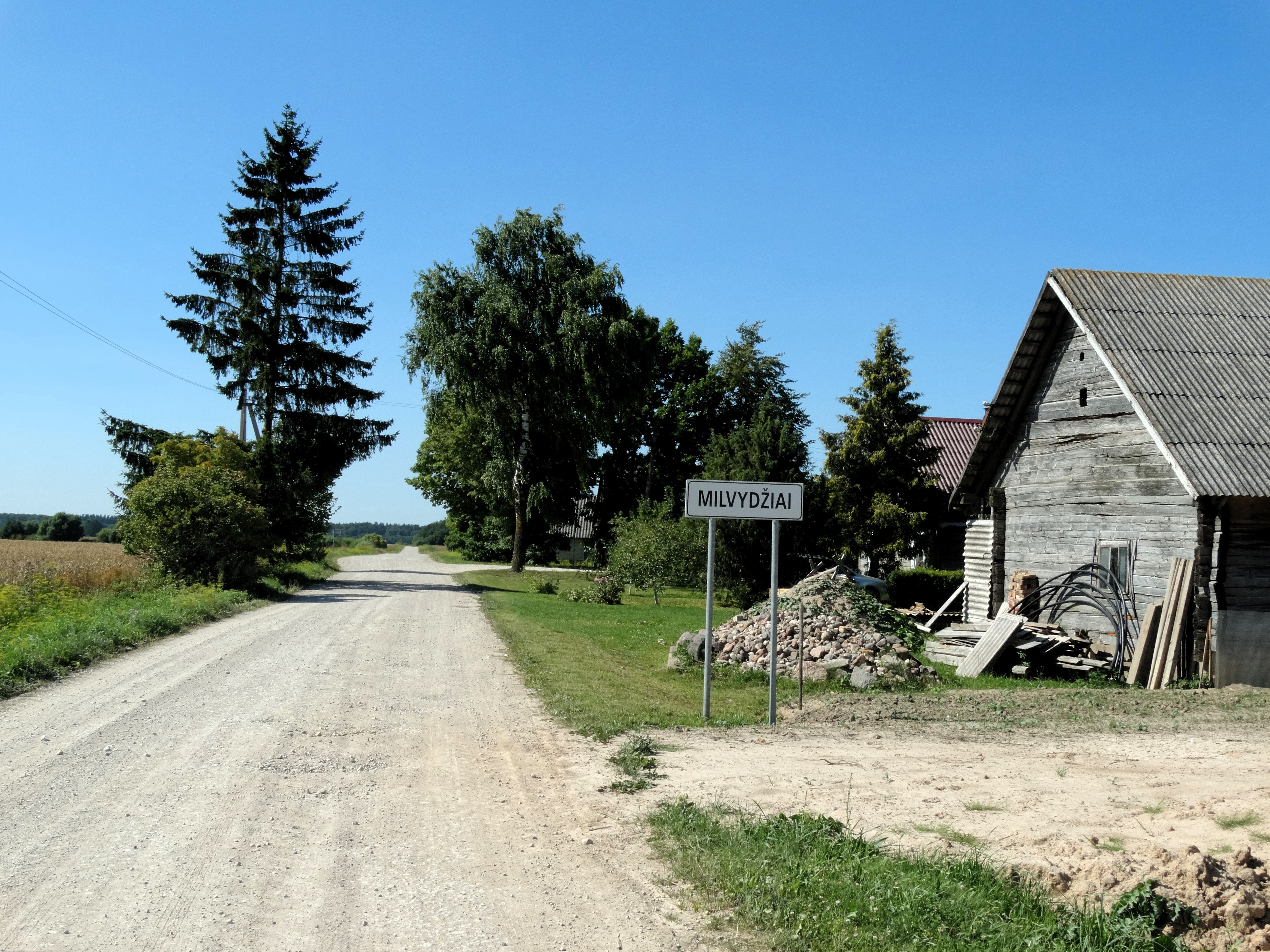 Milvydžiai, Joniškis District, Lithuania